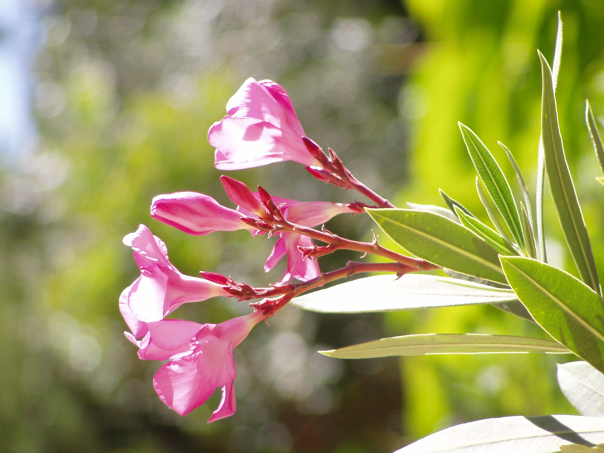 Oleander